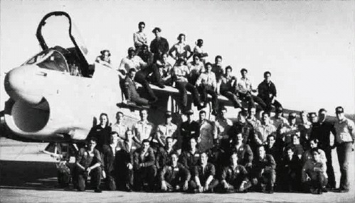 Personnel of U.S. Navy attack squadron VA-192 Golden Dragons in front of one or their LTV A-7E Corsair II fighters at the "Maple Flag" exercise, at Cold Lake, Alberta (Canada), in 1982.